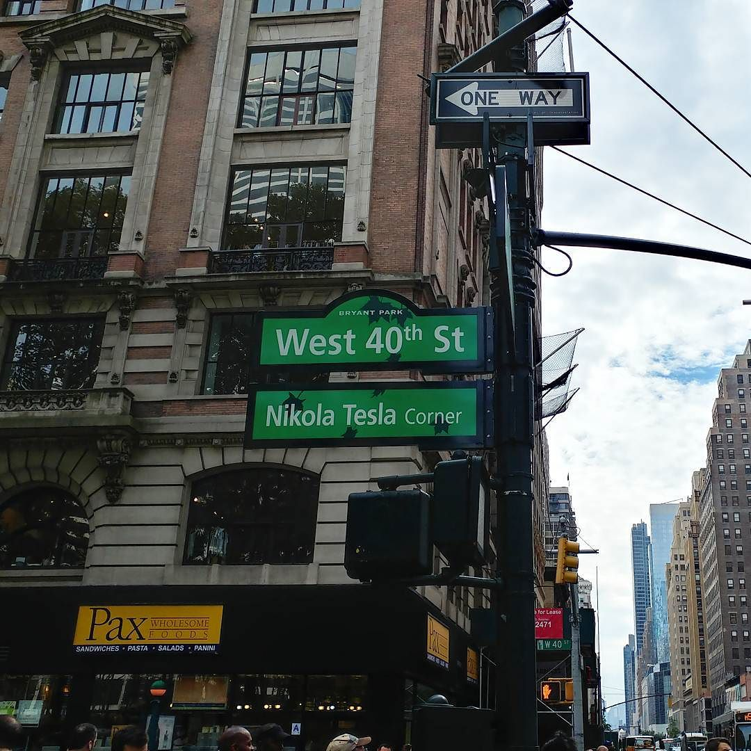 Nikola Tesla Corner (in front of Bryant Park), W 40th St, Manhattan, New York City ニコラ・テスラ コーナー。知財屋として外すことができない１枚。 マンハッタン ニューヨーク View on Instagram